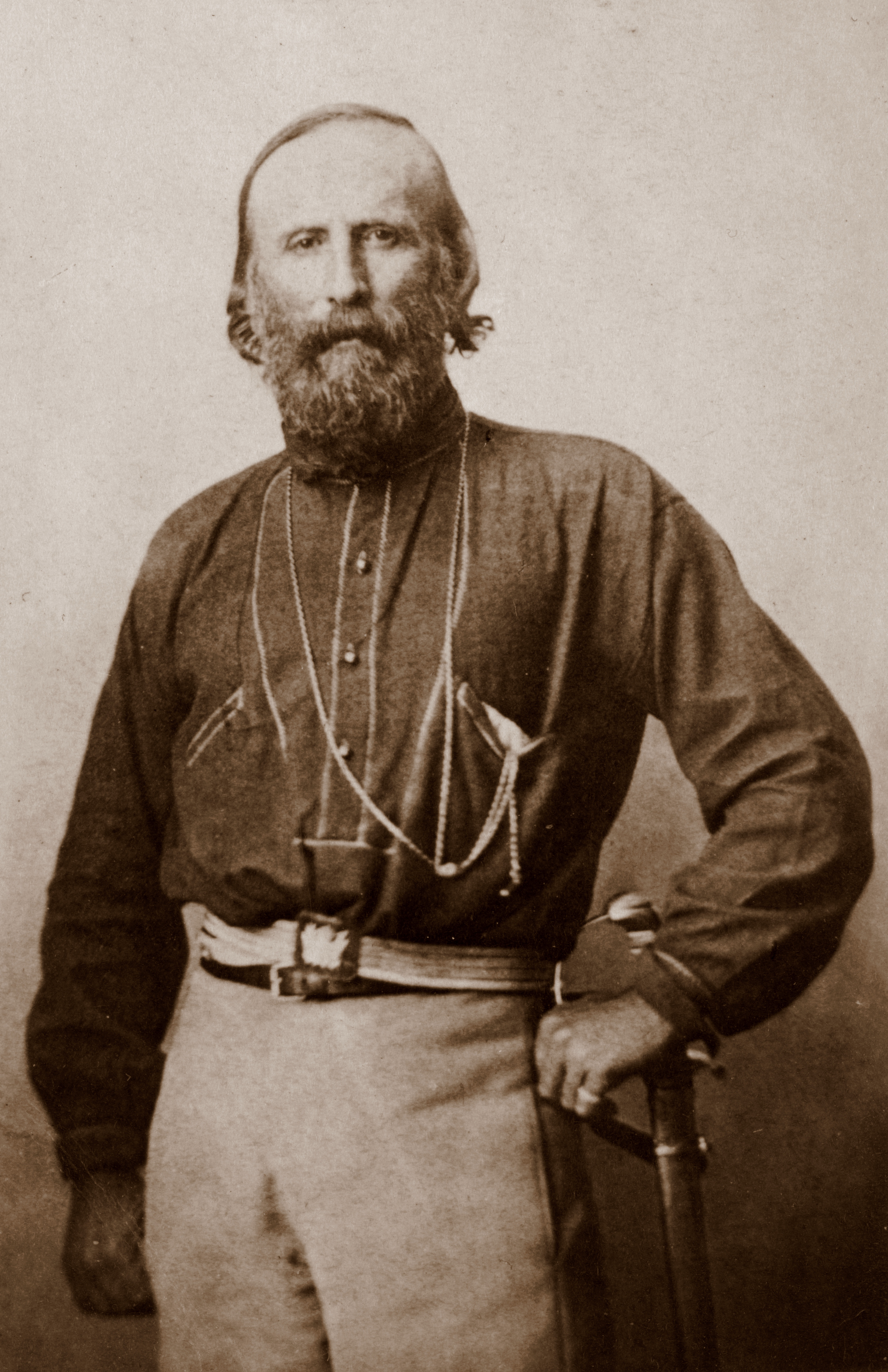 Photographic print on carte de visite of Giuseppe Garibaldi (1808-1882), half-length portrait, standing, facing front. Taken in Naples, Italy.